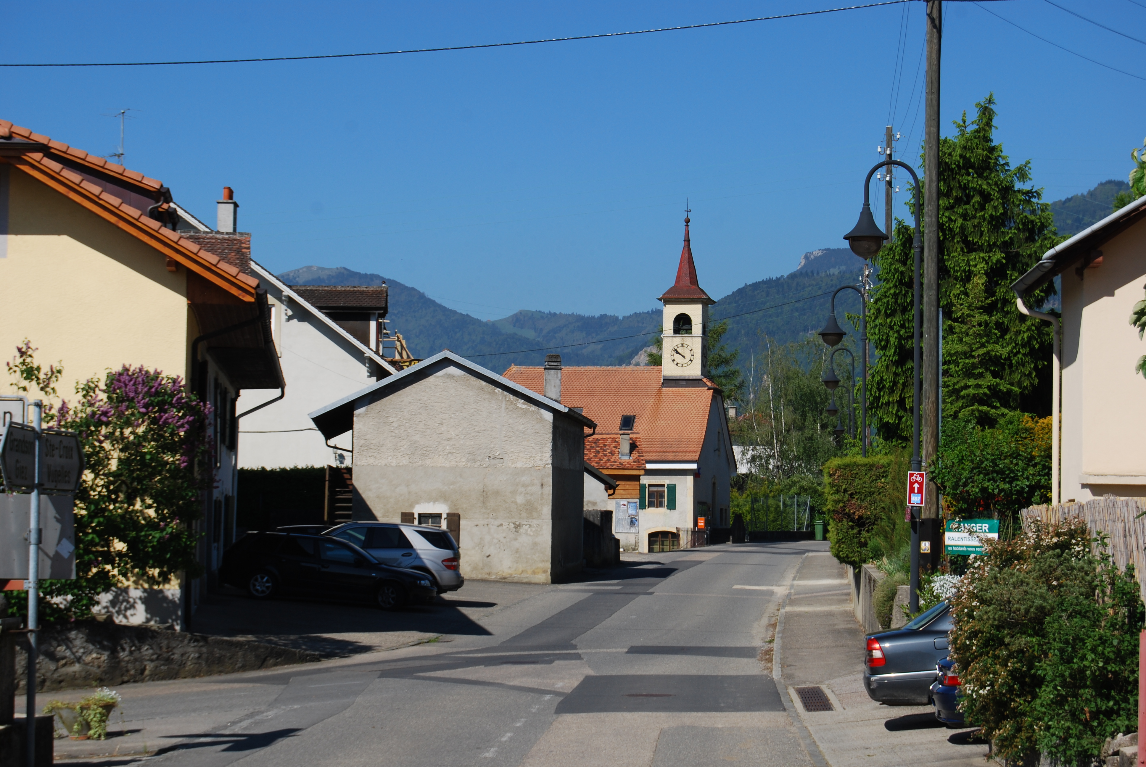 Orges, canton of Vaud, SwitzerlandEsperanto: Orges, Kantono Vaŭdo, Svislando